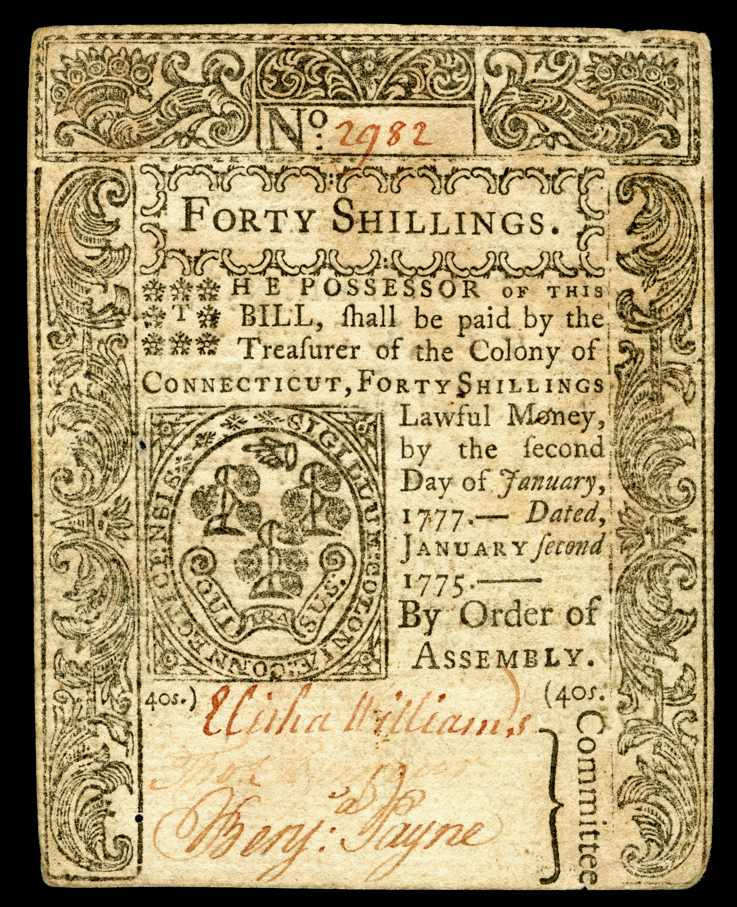 40s Colonial currency from Connecticut Colony. Signed by Elisha Williams, Thomas Seymour, and Benjamin Payne. Printed by Timothy Green (New London).(Friedberg Colonial ref# CT-178).